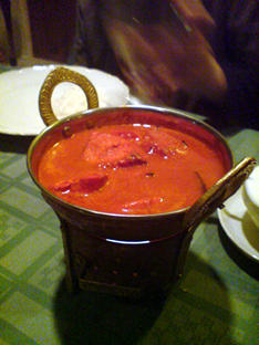 Tandoori Chicken